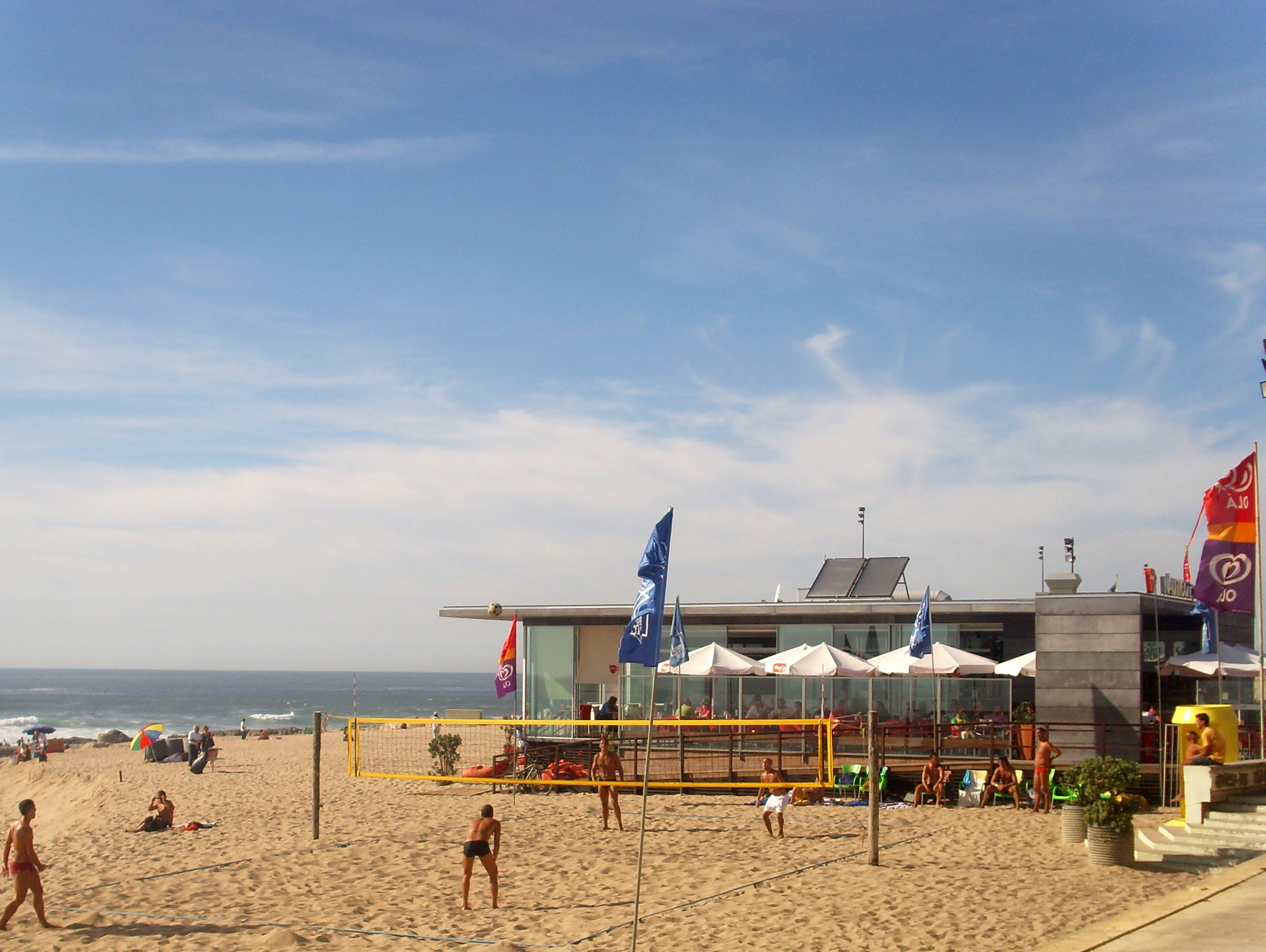 Beach volley in October in Póvoa de Varzim